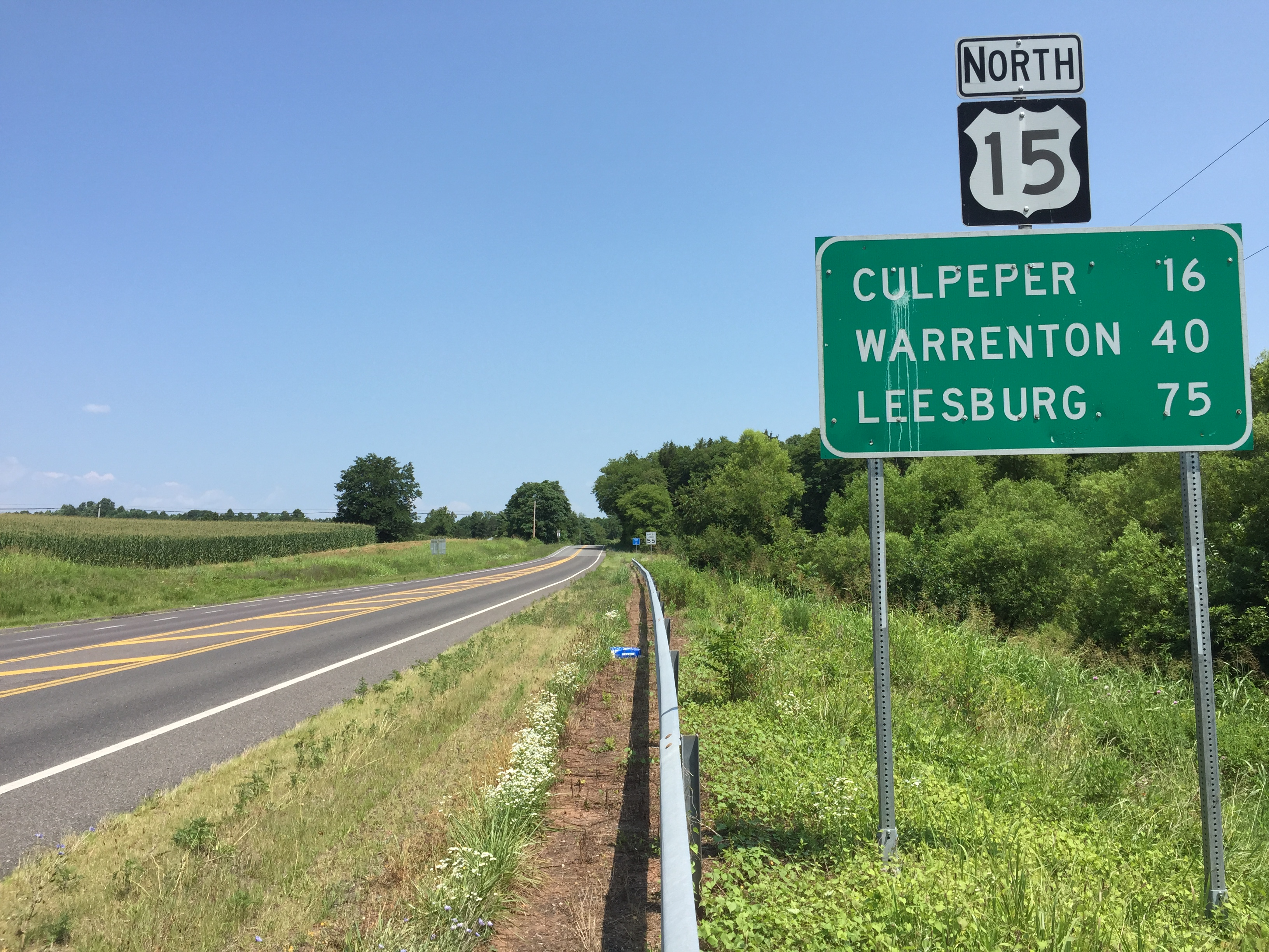 View north along U.S. Route 15 (James Madison Highway) just north of Virginia State Route 230 (Orange Road) in Madison Mills, Madison County, Virginia